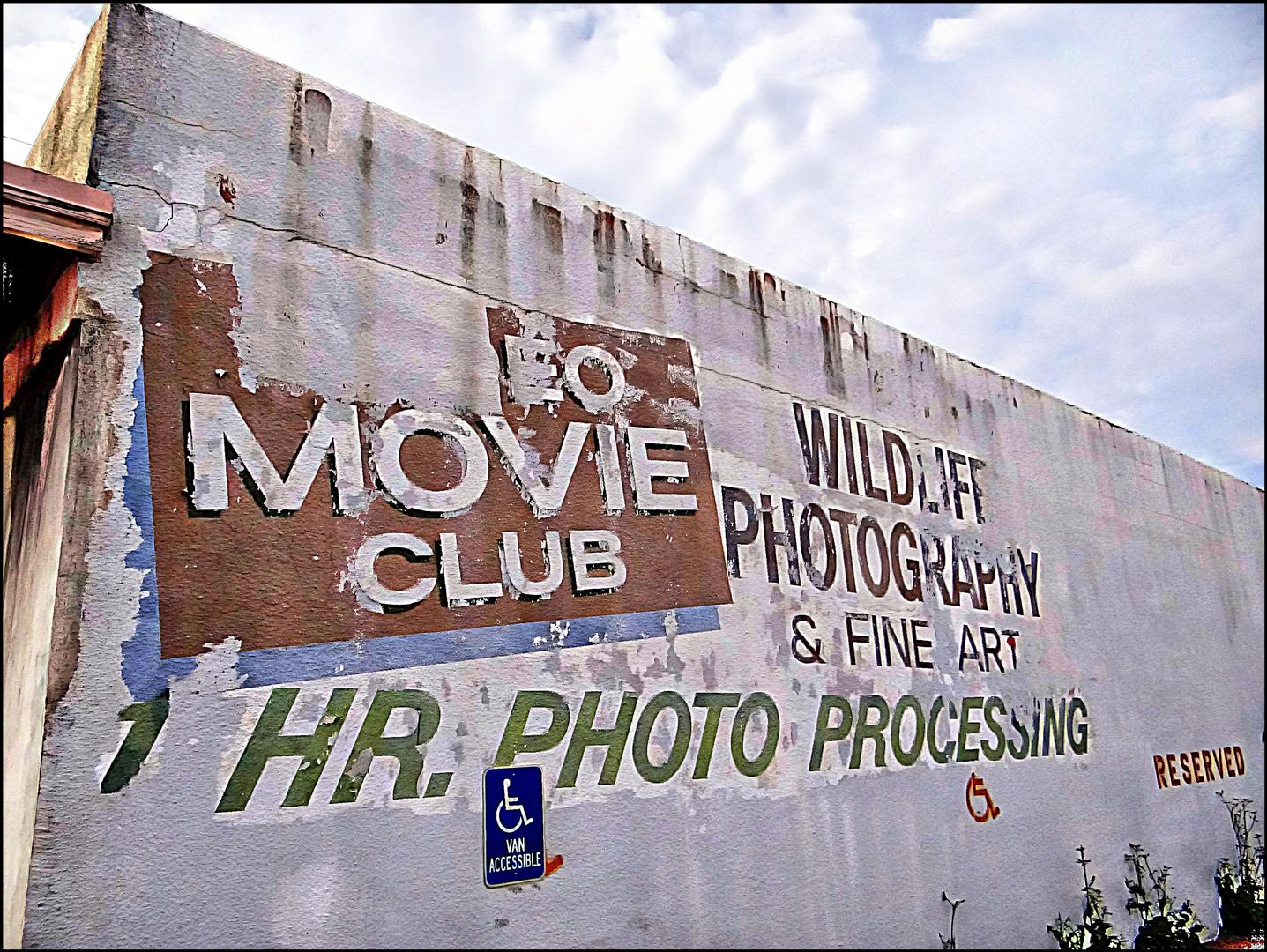 Faaded photo movie and art shop sign, Alice, Texas